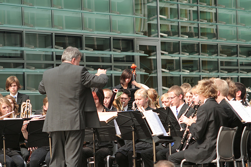 The Swedish National Wind band in concert at the Swedish Embassy in Berlin, Germany